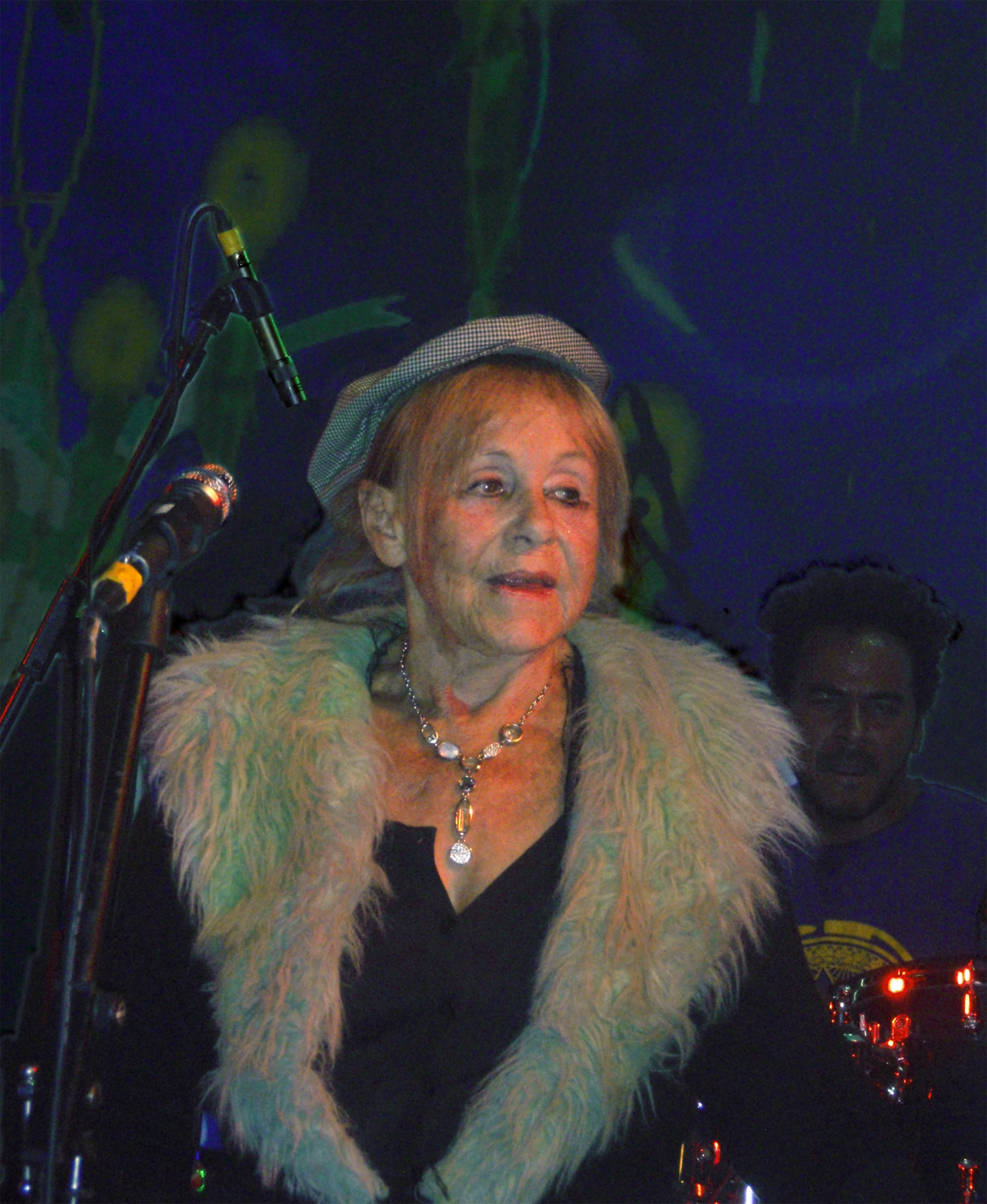 Gong, playing live in the Zappa club in Tel-Aviv. The 2032 tour.